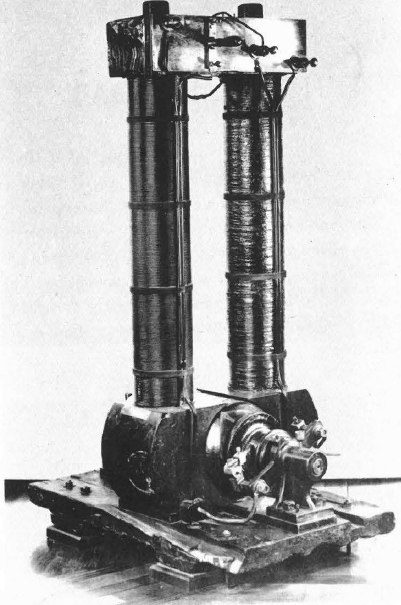 Edison dynamo 1882 used in Prospect House of Blue Mountain Lake in New York